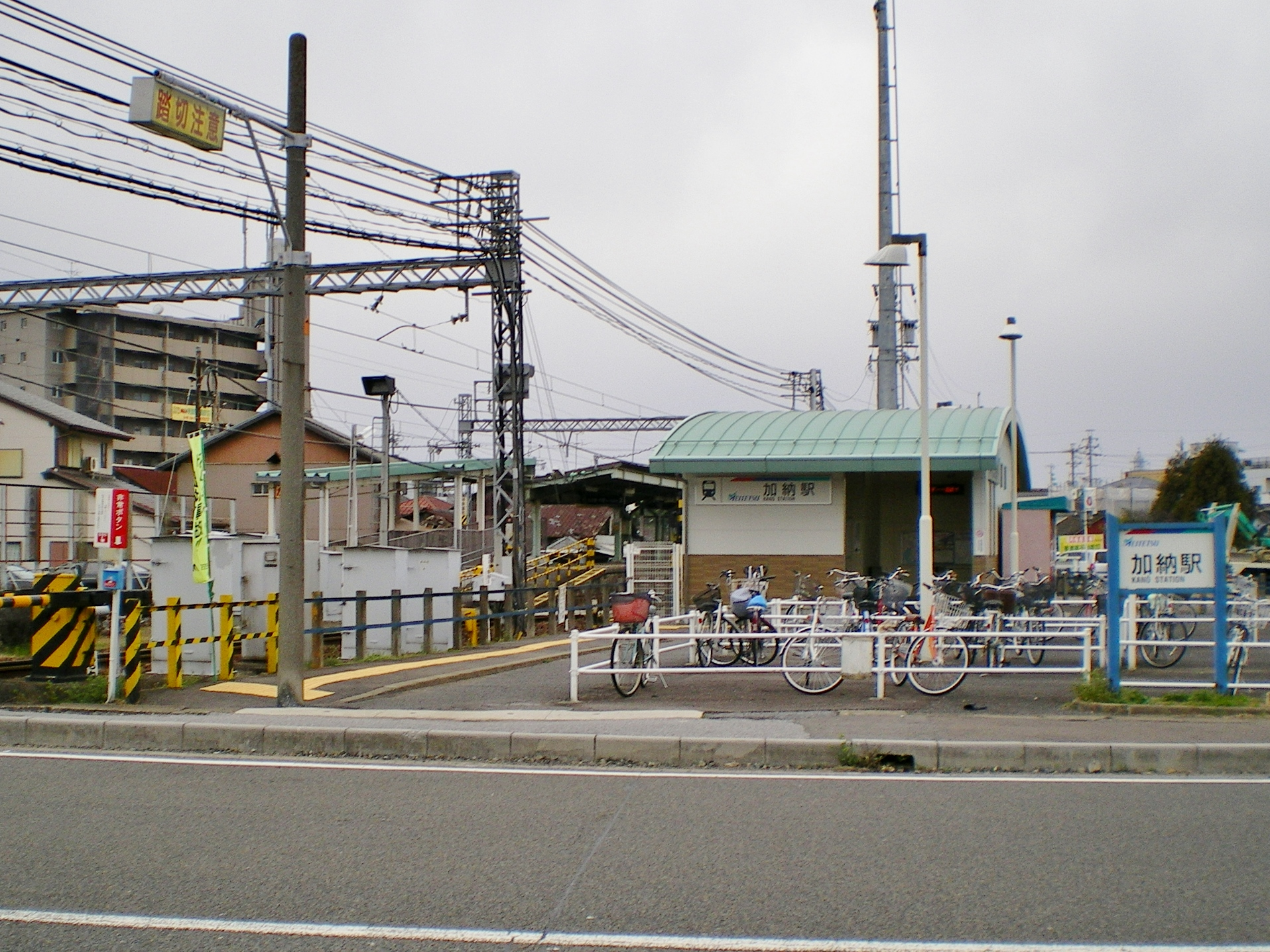 Nagoya Railroad Nagoya Main Line Kanō Station Building